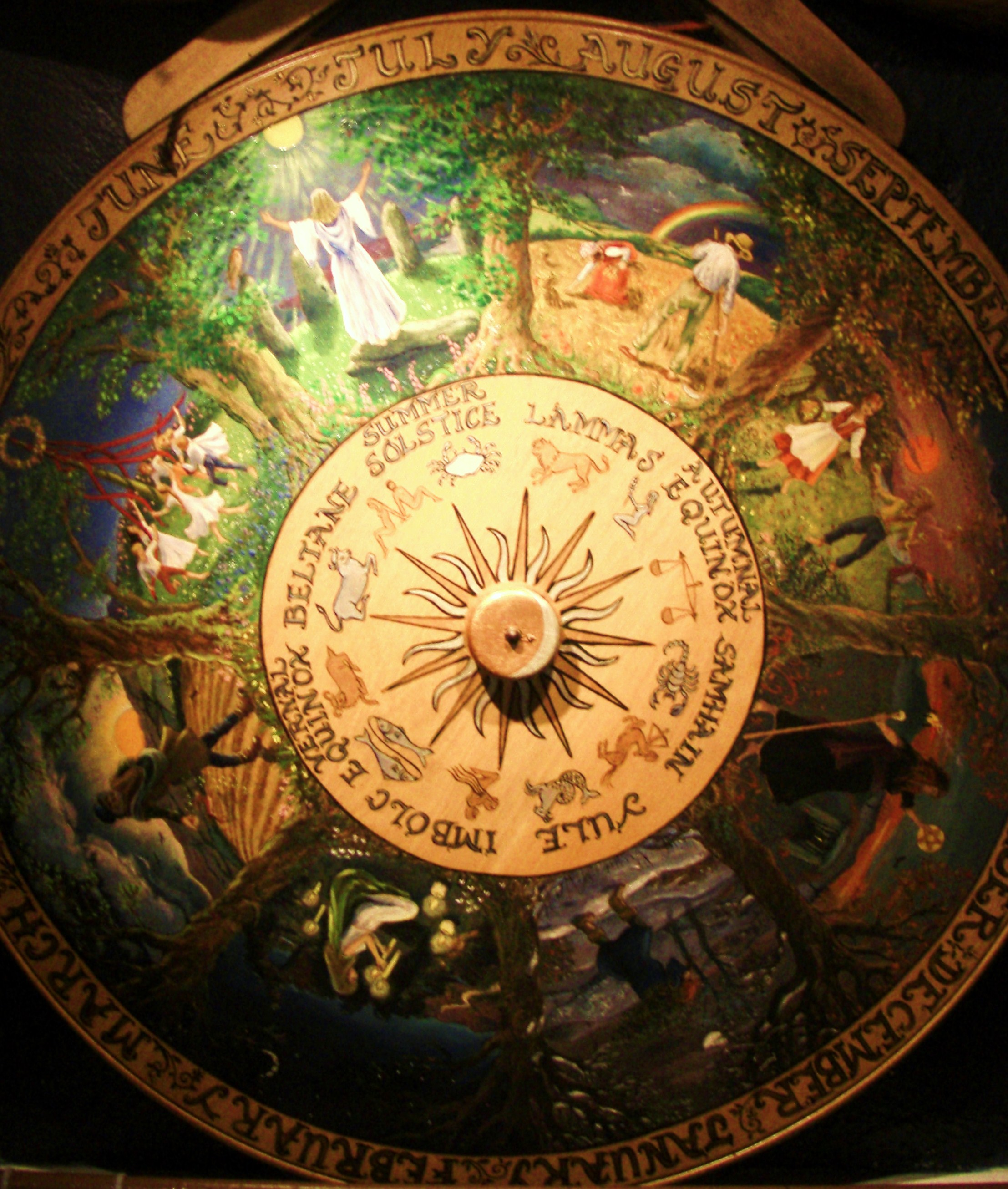 A photograph of a painted Wheel of the Year from the Museum of Witchcraft, Boscastle. Painted by Cornish artist Vivienne Shanley, on wooden disc made by Mark Highland.